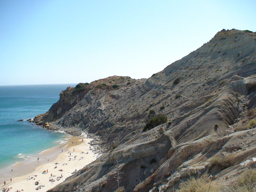 West side of the beach. Summer 2007